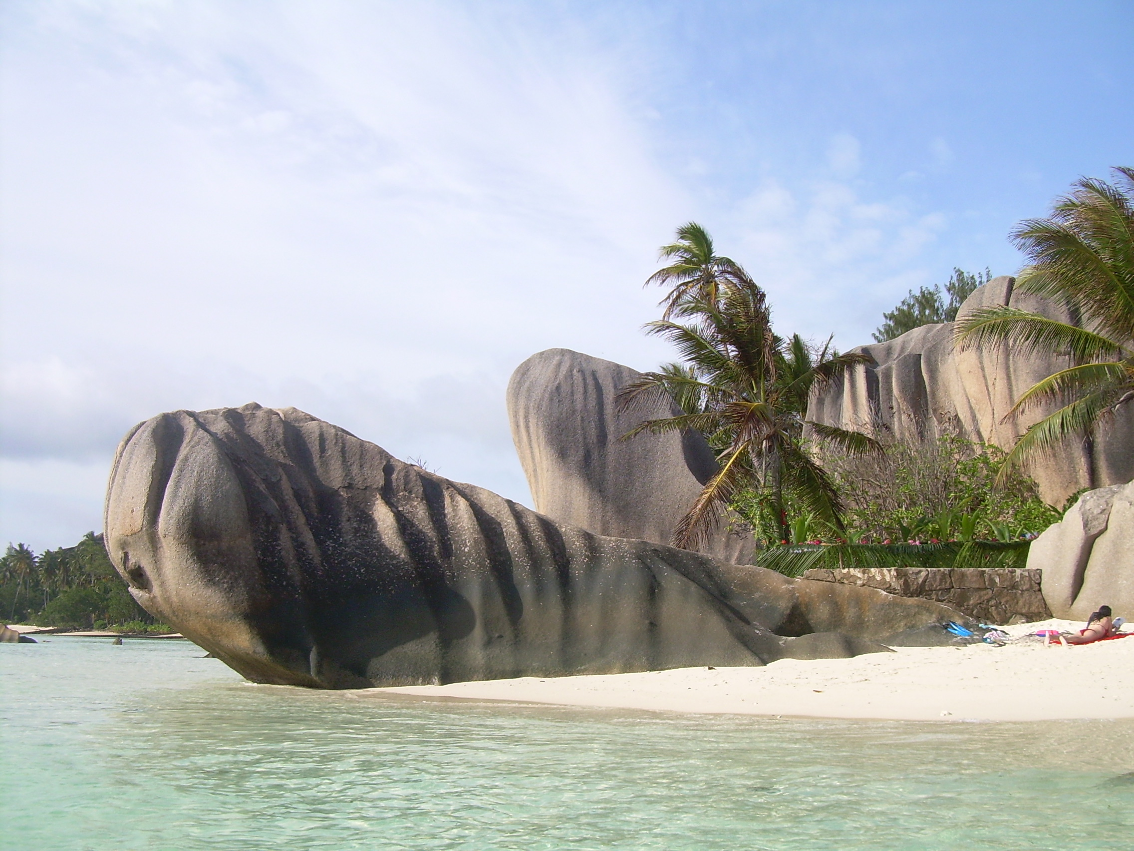 Anse Source d'Argent, a famous beach on the island of La Digue, Seychelles.